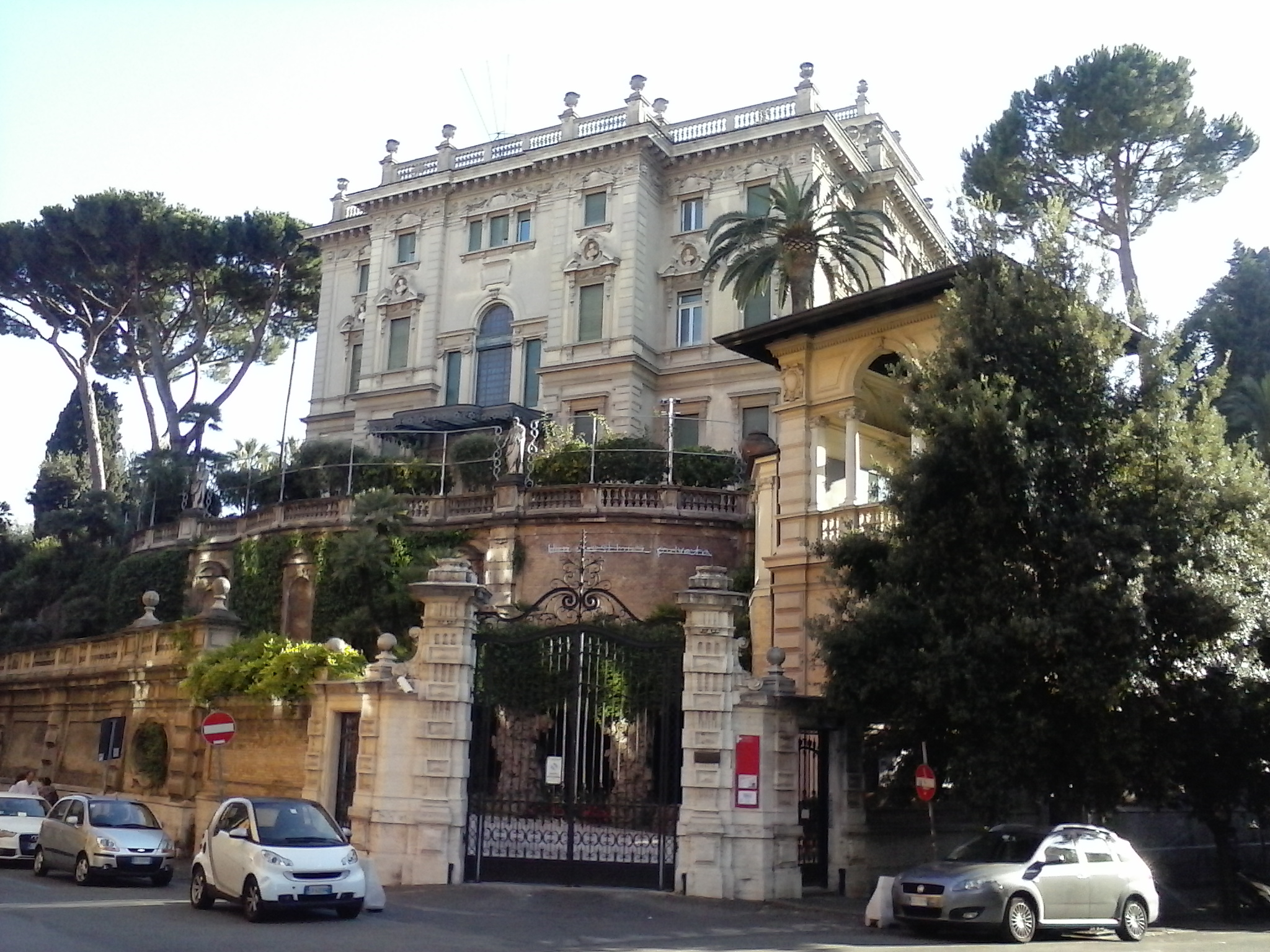 Can I use this photo? Read here for more informations.